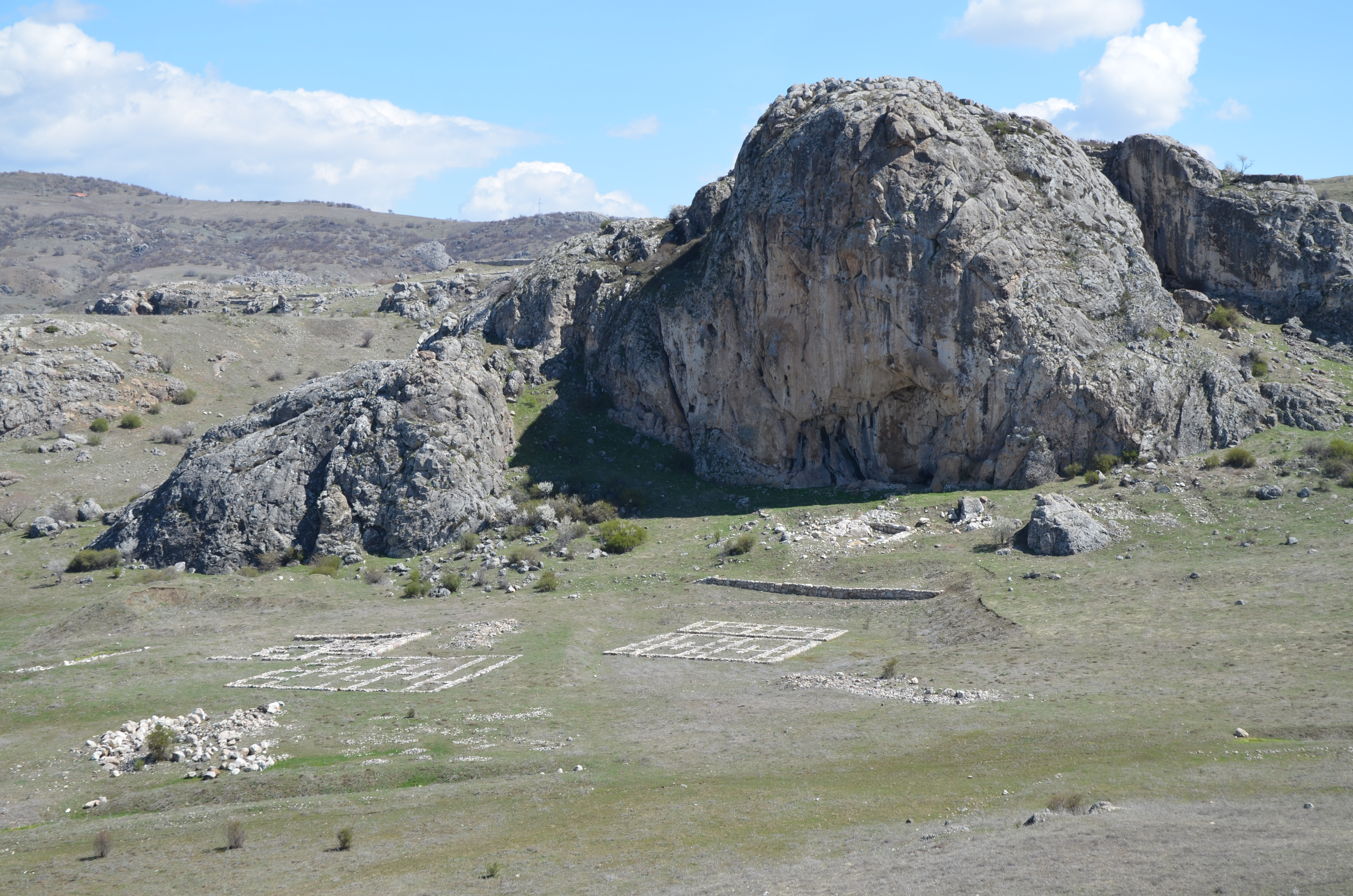 Hattusa, the capital of the Hittite Empire in the late Bronze Age, Boğazkale, Turkey